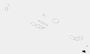 Map of the Azores highlighting Vila do Porto.